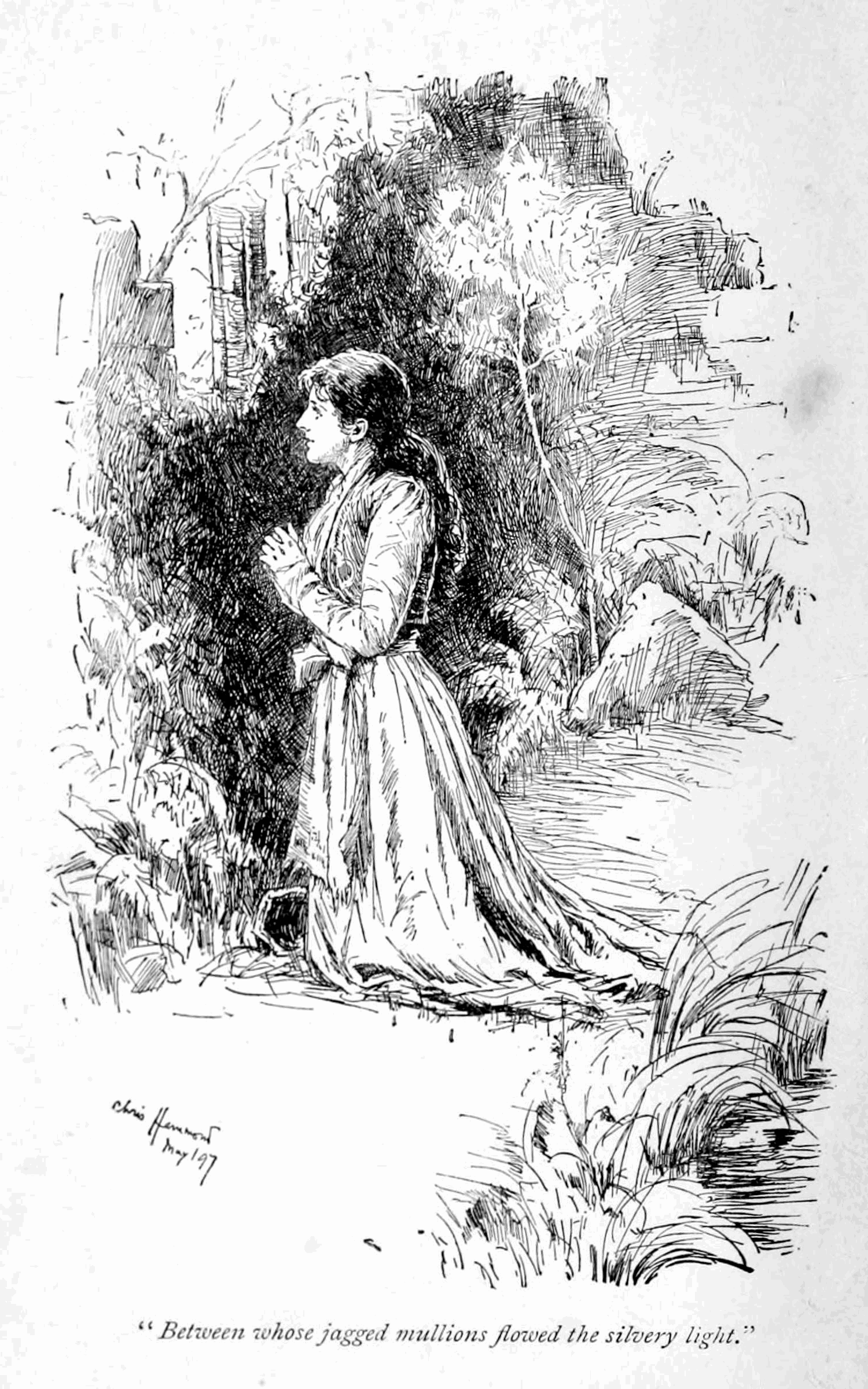 Frontispiece from the novel Dariel by R. D. Blackmore. Published in 1897. Picture drawn by Chris Hammond.